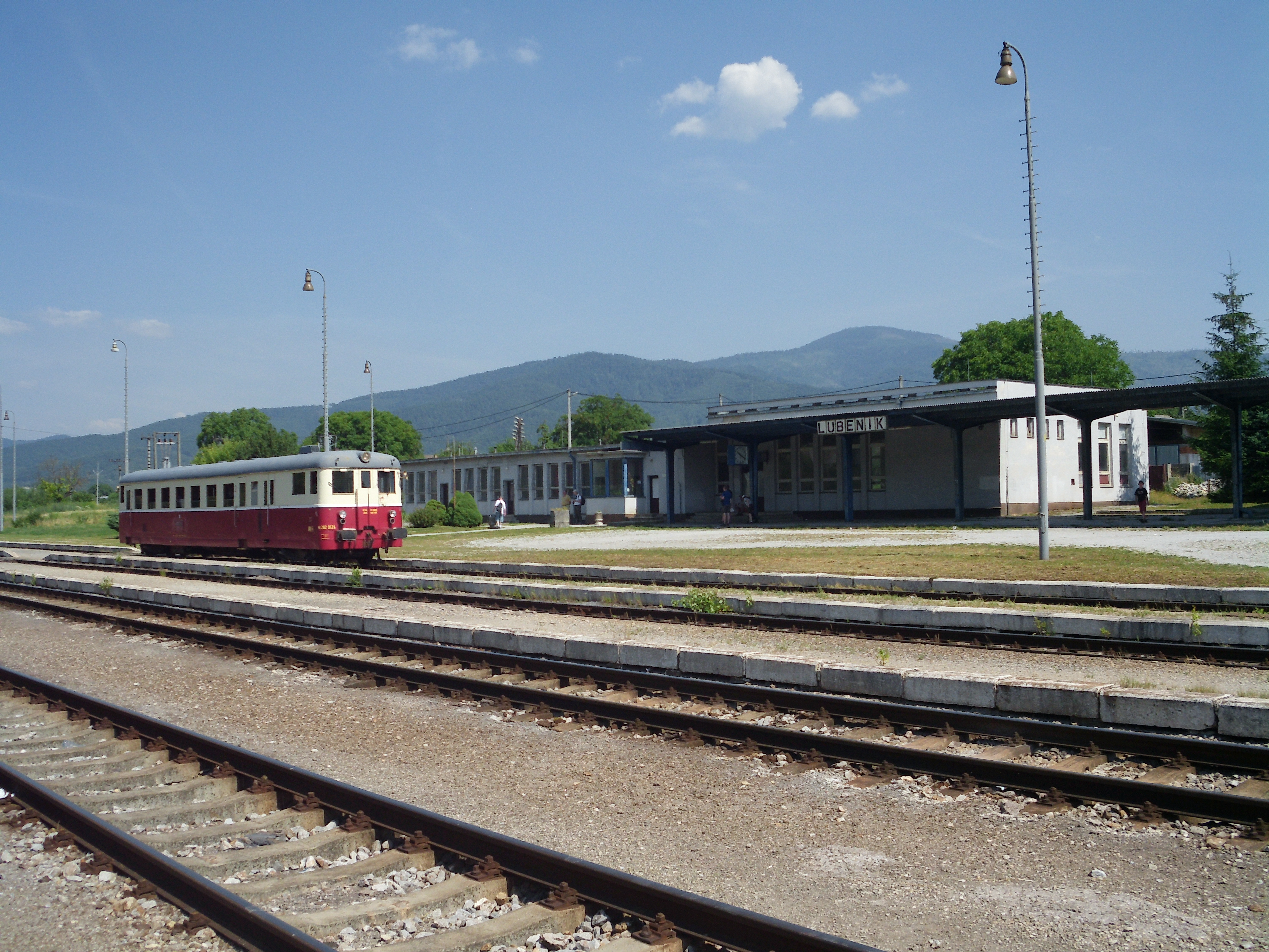 A historic diesel railcar M282 at a station in Lubeník on a route from Plešivec to Muráň in Slovakia.